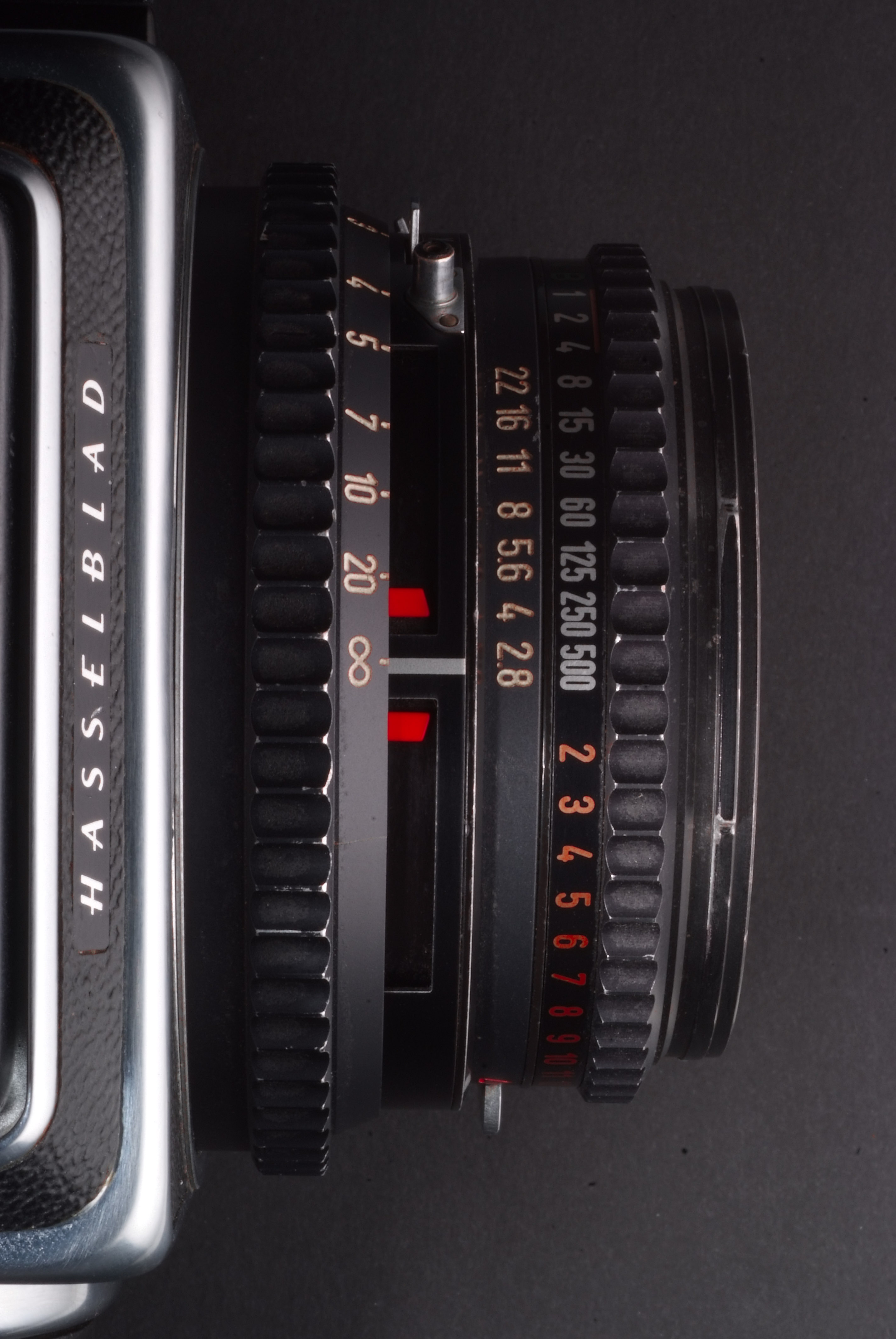 Hasselblad with Planar 80mm lens at 12 EV